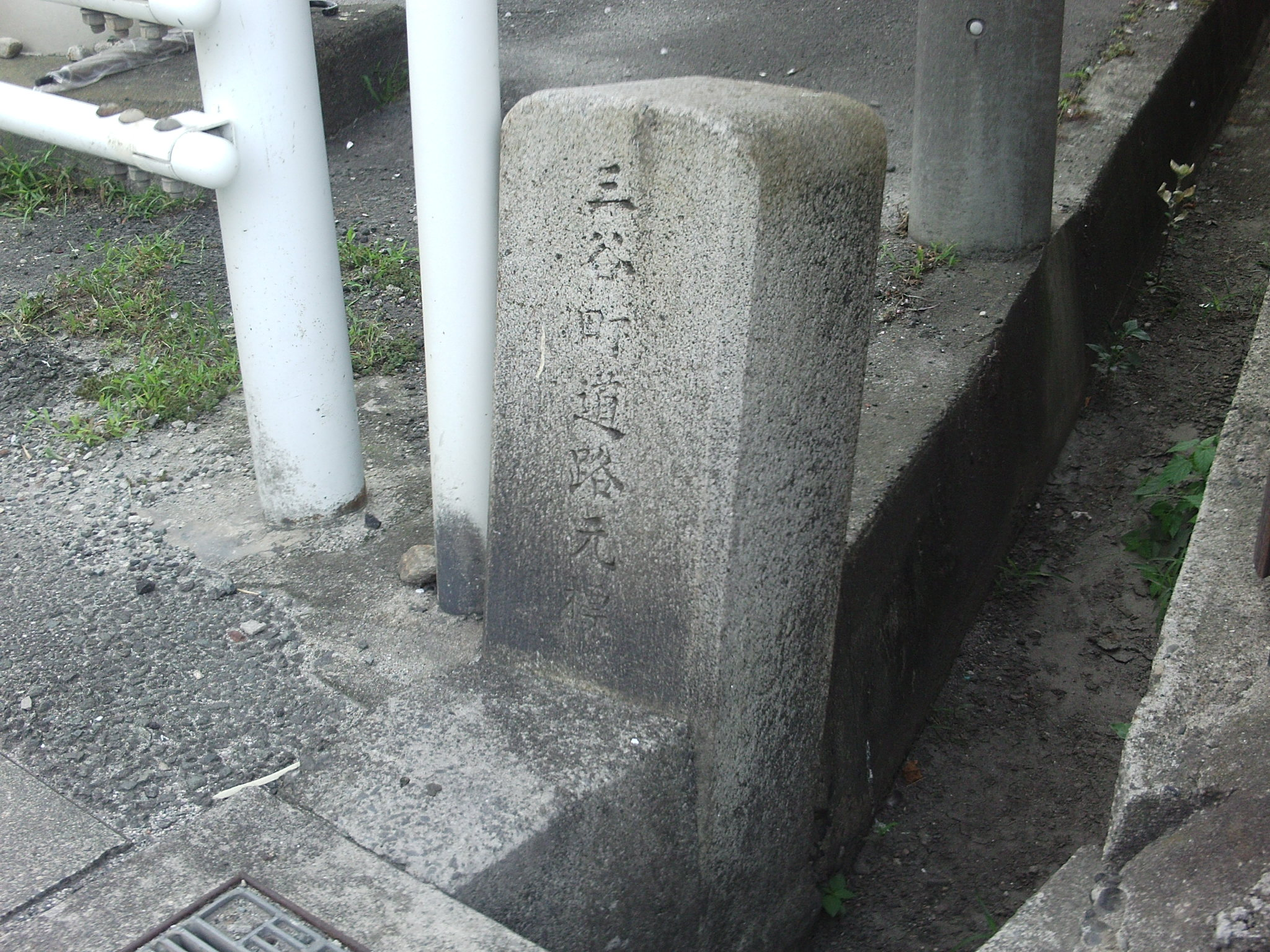 Kilometre zero of Miya town. (Miya town, Hoi-gun, Aichi.)